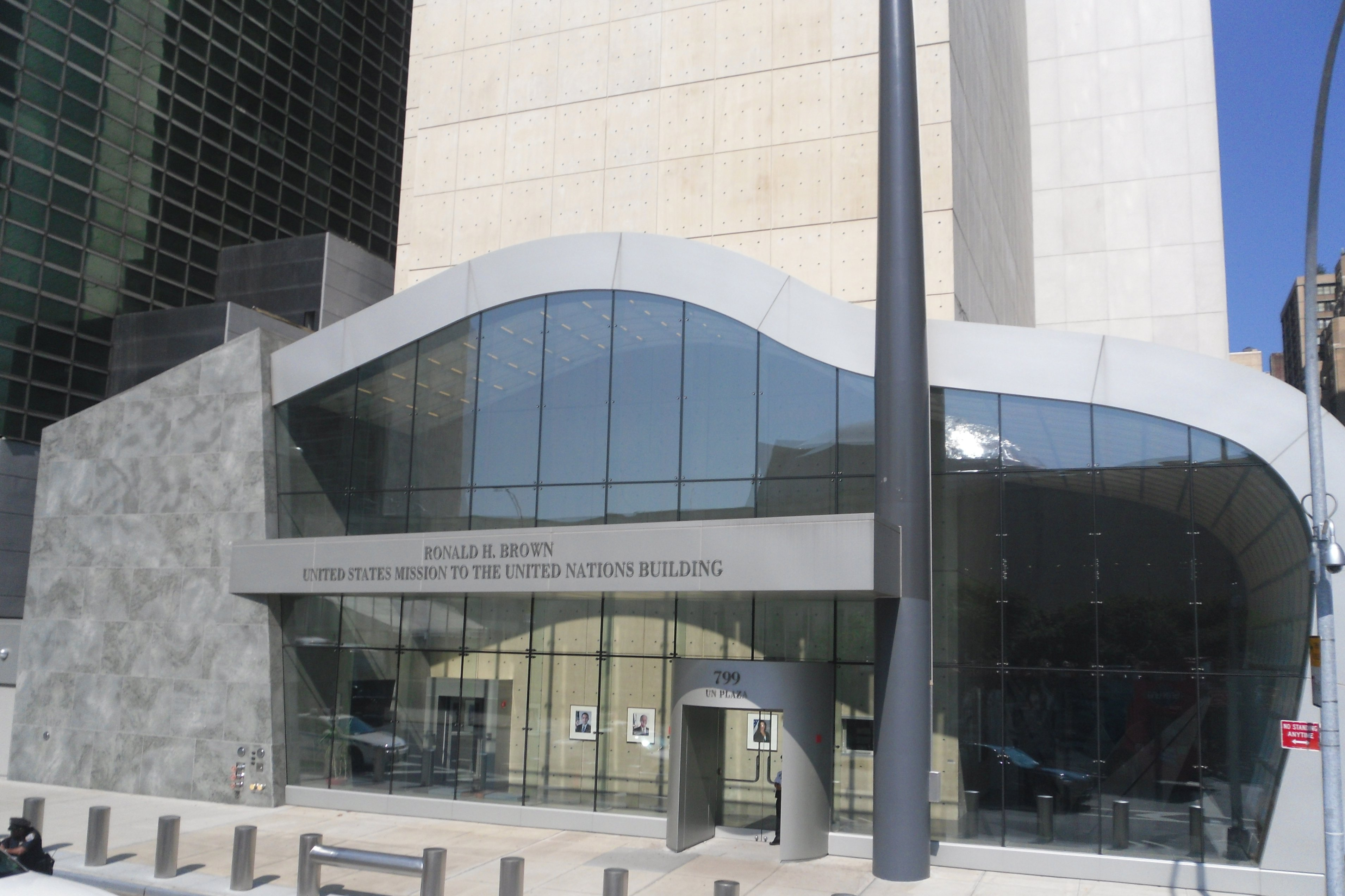 The US mission to the United Nations in New York City across the steet from the UN main building